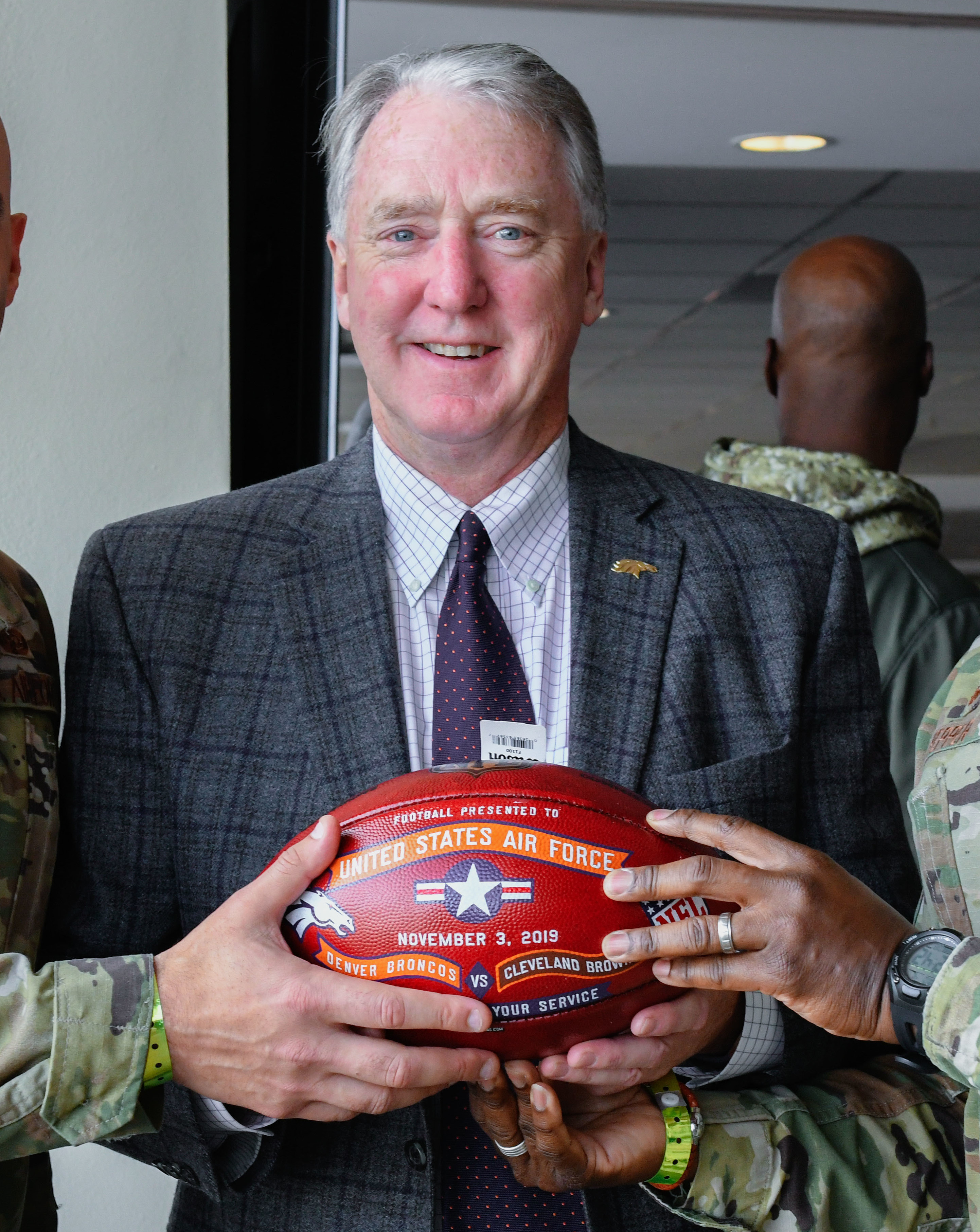 U.S. Air Force Chief Master Sgt. Robert Devall (left), the Aerospace Data Facility-Colorado senior enlisted leader, and Col. Devin Pepper (right), the 460th Space Wing commander, pose for a photo with Joe Ellis, the Denver Broncos president and chief executive officer, Nov. 3, 2019, at Empower Field at Mile High in Denver. Military members serving in the local area were invited to attend the Denver Broncos game, meet players and alumni, and participate in pregame and halftime ceremonies. (U.S. Air Force photo by Airman 1st Class Joshua T. Crossman)